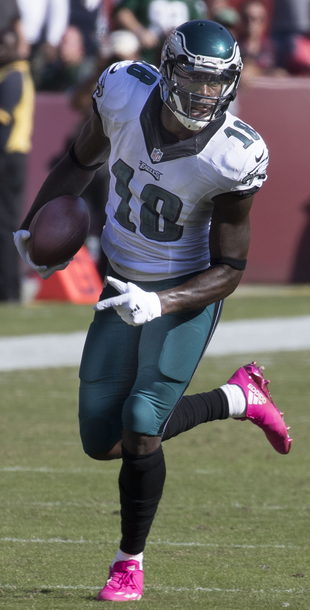 Photo of Philadelphia Eagles wide receiver Dorial Green-Beckham